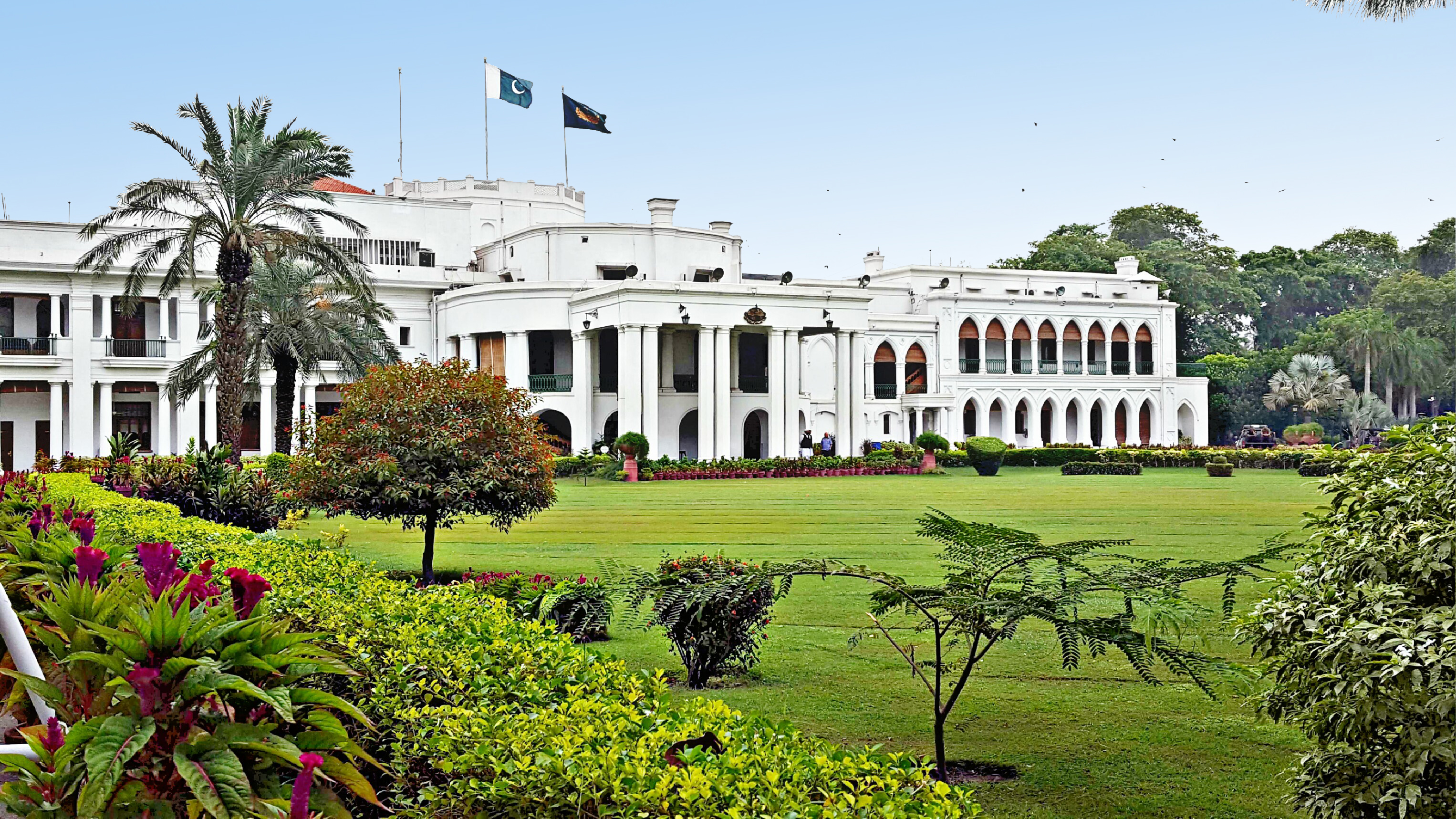 The Governor's House... Facts 1. The Governor's House (Lahore), is the official residence of the Governor of Punjab (Pakistan). 2. It is spread spread over 700 kanals. 3. The current governor of Punjab is Chaudhry Mohammad Sarwar. 4. First Governor of Punjab was Sir Francis Mudie 1947-1949. 5. The Newly Elected Government of Pakistan opened it for general Public. 6. The residence is surrounded by lawns and gardens. Close to the house, there is a tomb belonging to a man by the name of Muhammad Qasim Khan. 7. Four doorways enclose the two-story tomb and to the north, there is a stairway which leads up. 8. Much of the furniture and artifacts used in the house are antique relics that date back. 9. There are also a large number of birds (patridge, hen, ducks, cranes) & mammals (deer) inside the mansion. This is a photo of a monument in Pakistan identified as the PB-P-90